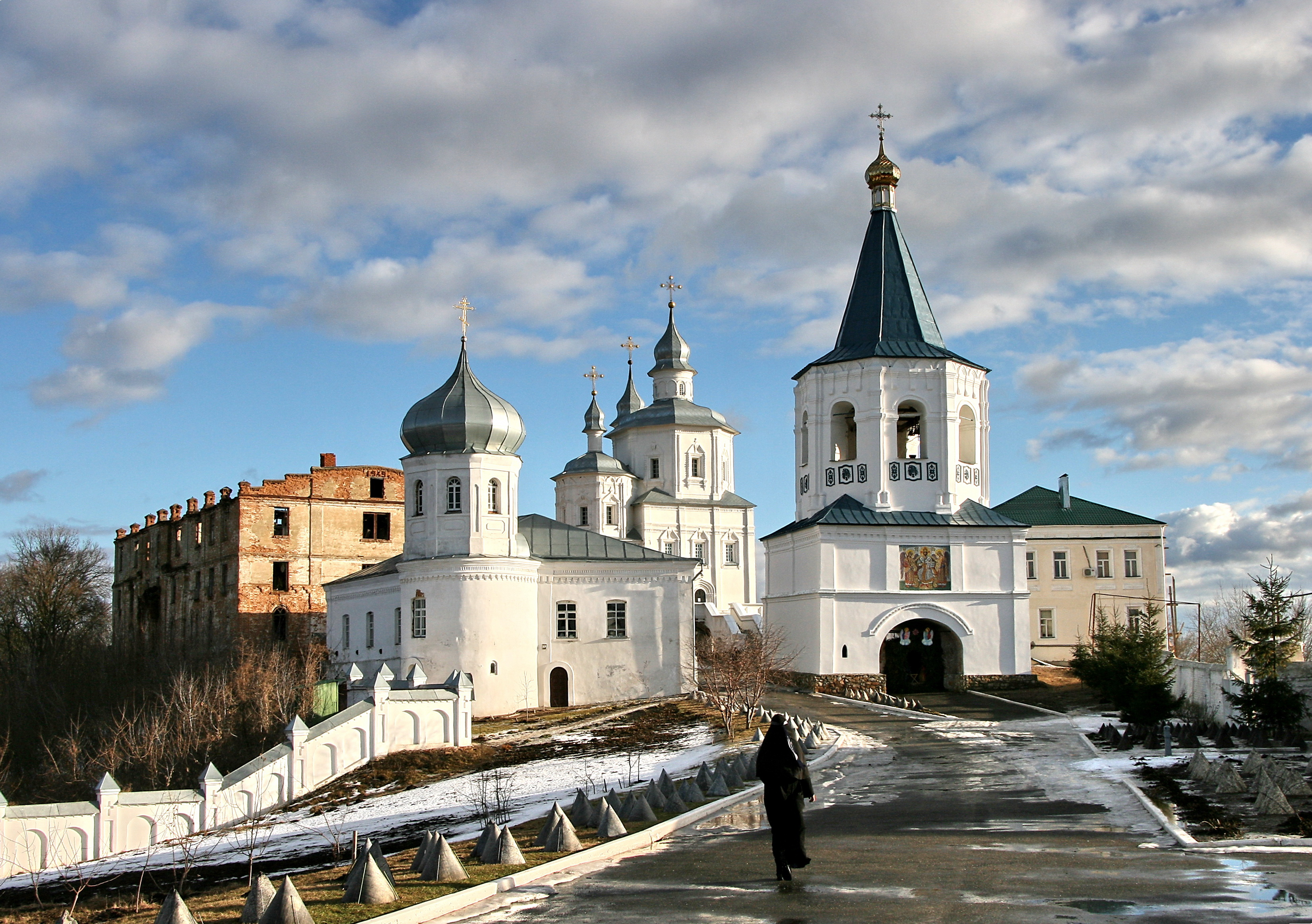 Movchanskyy monastery, XVI-XIX century (architecture monument of national significance №622). Sumy region, Putyvl.